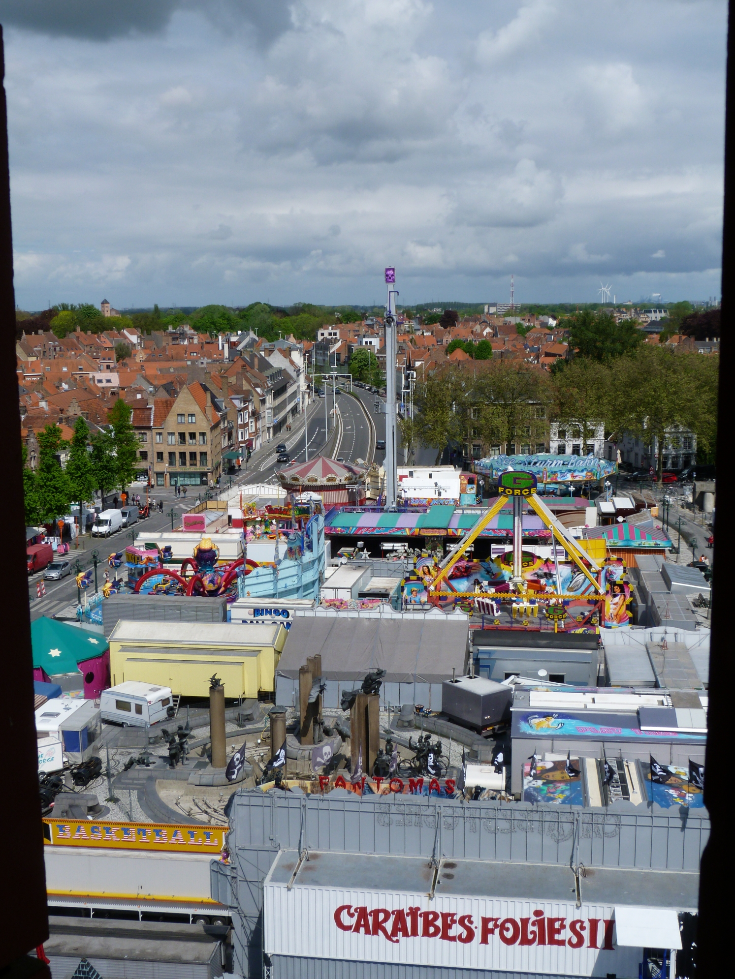 View of Bruges from the Lantern Tower on the Meifoor (Fair of May)